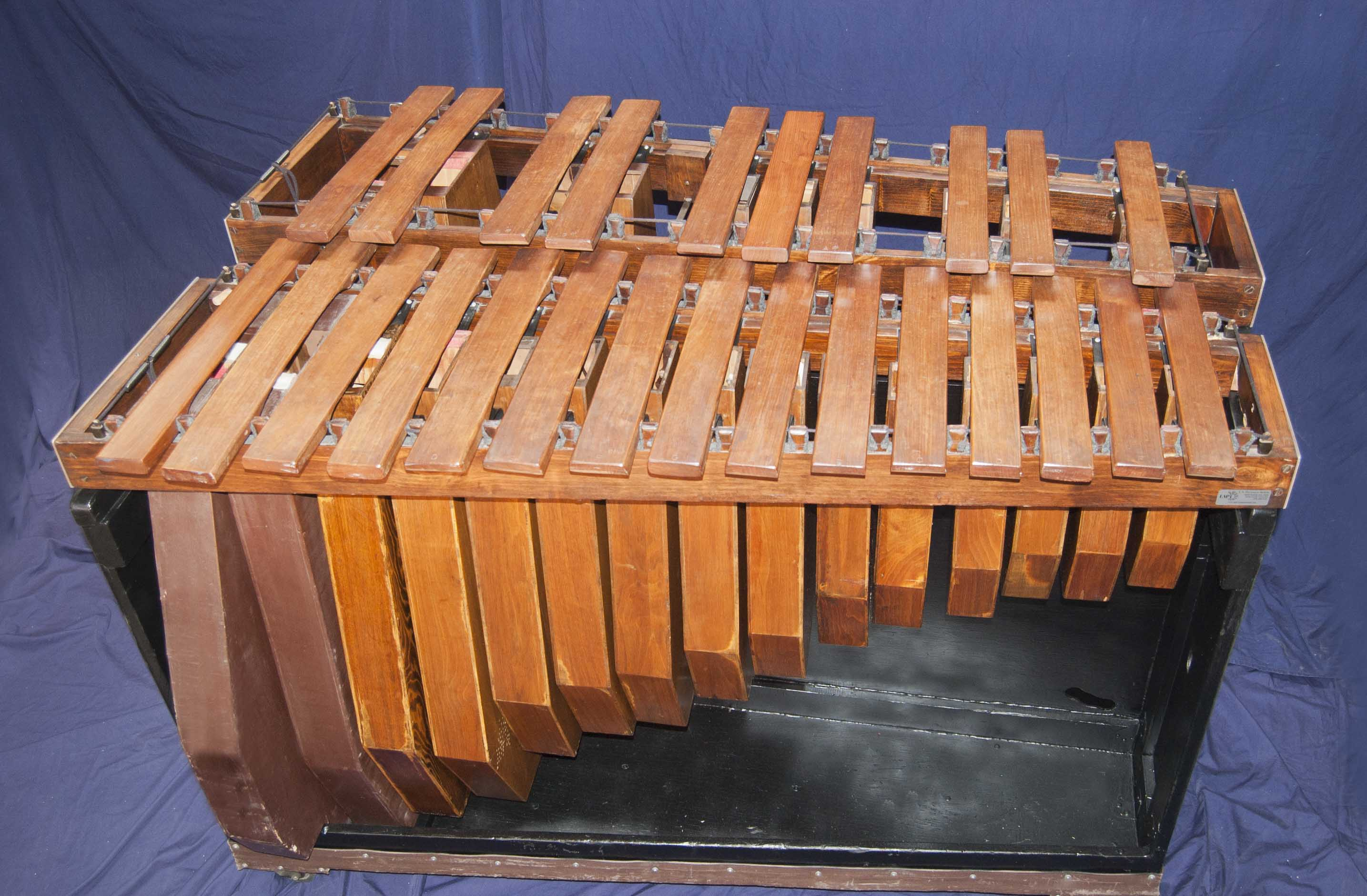 Contra Bass Marimba from Emil Richards Collection Range G1-G3